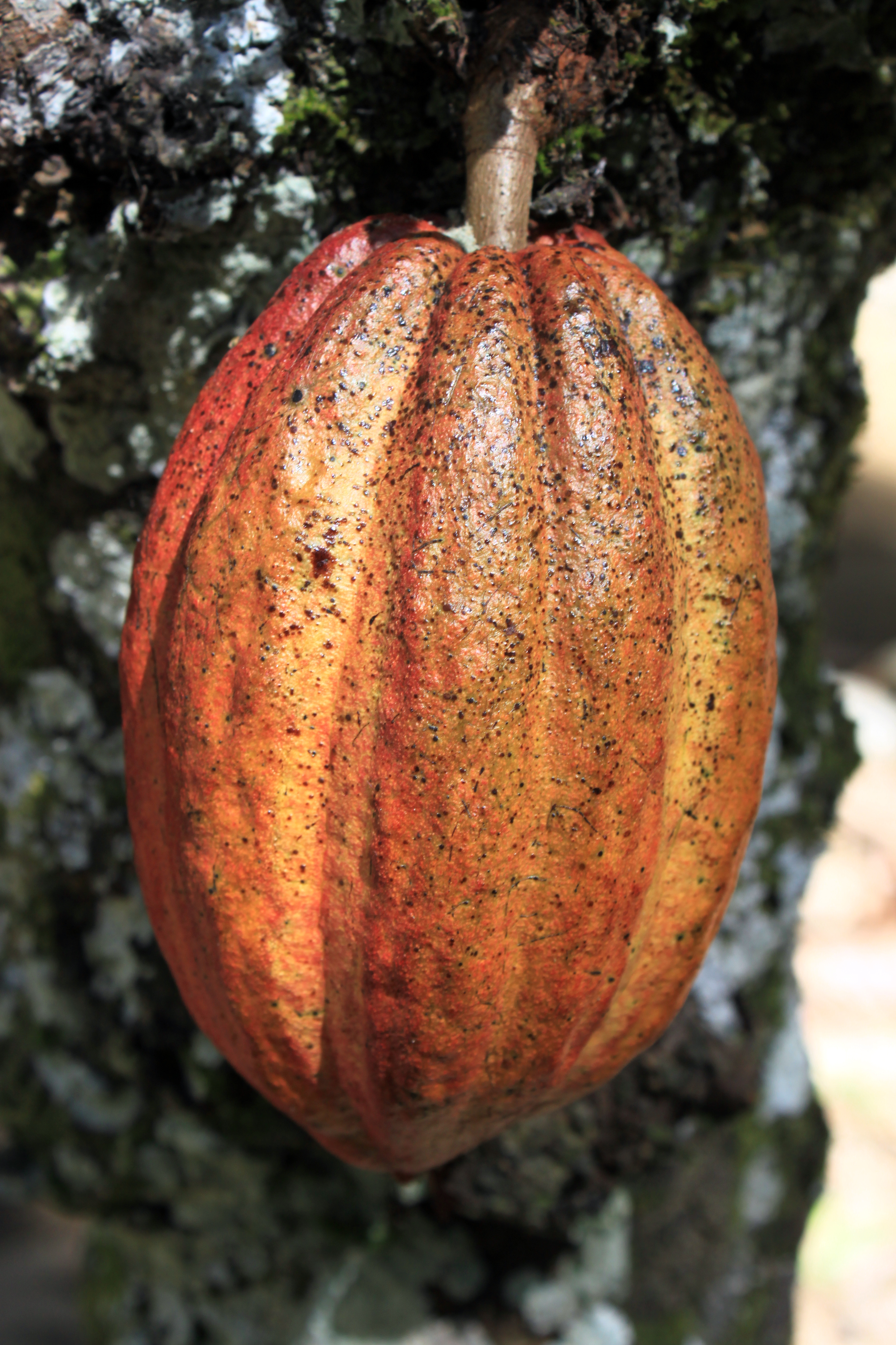 Cacao fruit